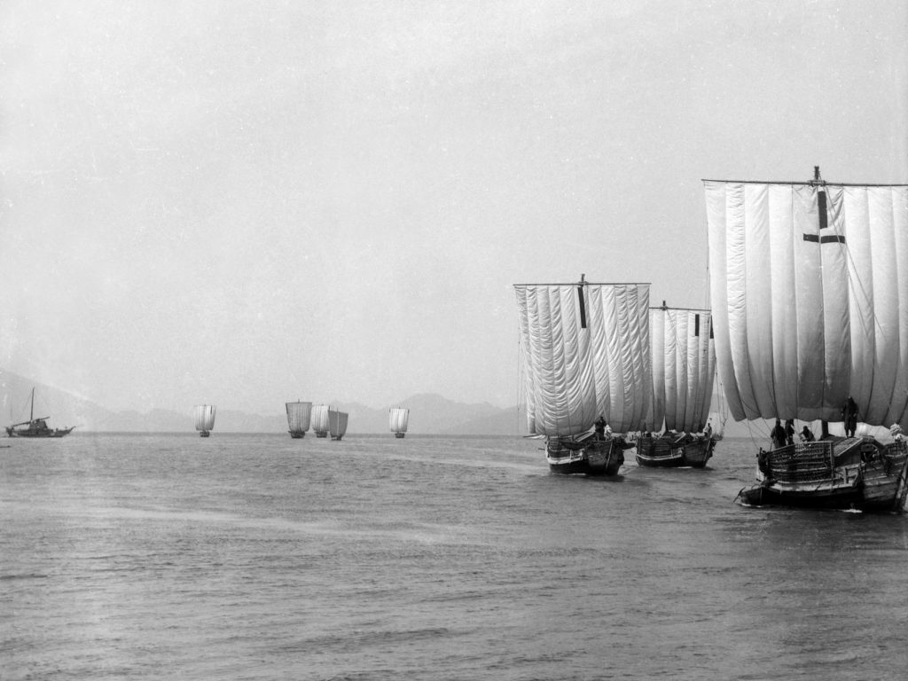 Kitamaebune, photograph by Iida Yonezō, Wakasa History Museum, Obama, Fukui, Japan